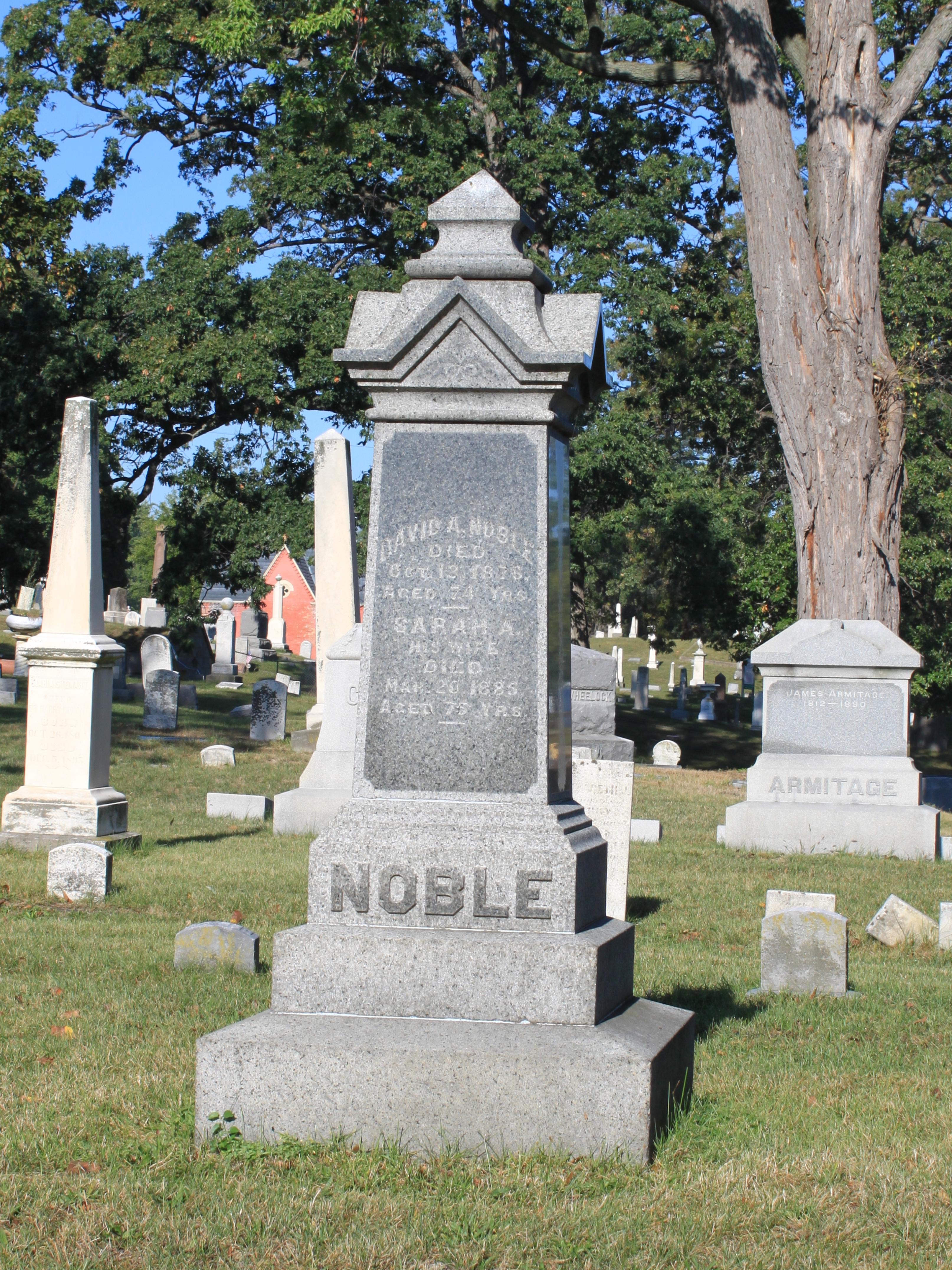 David Addison Noble grave, Woodland Cemetery, Monroe, Michigan. Noble was a US congressmand from Michigan.